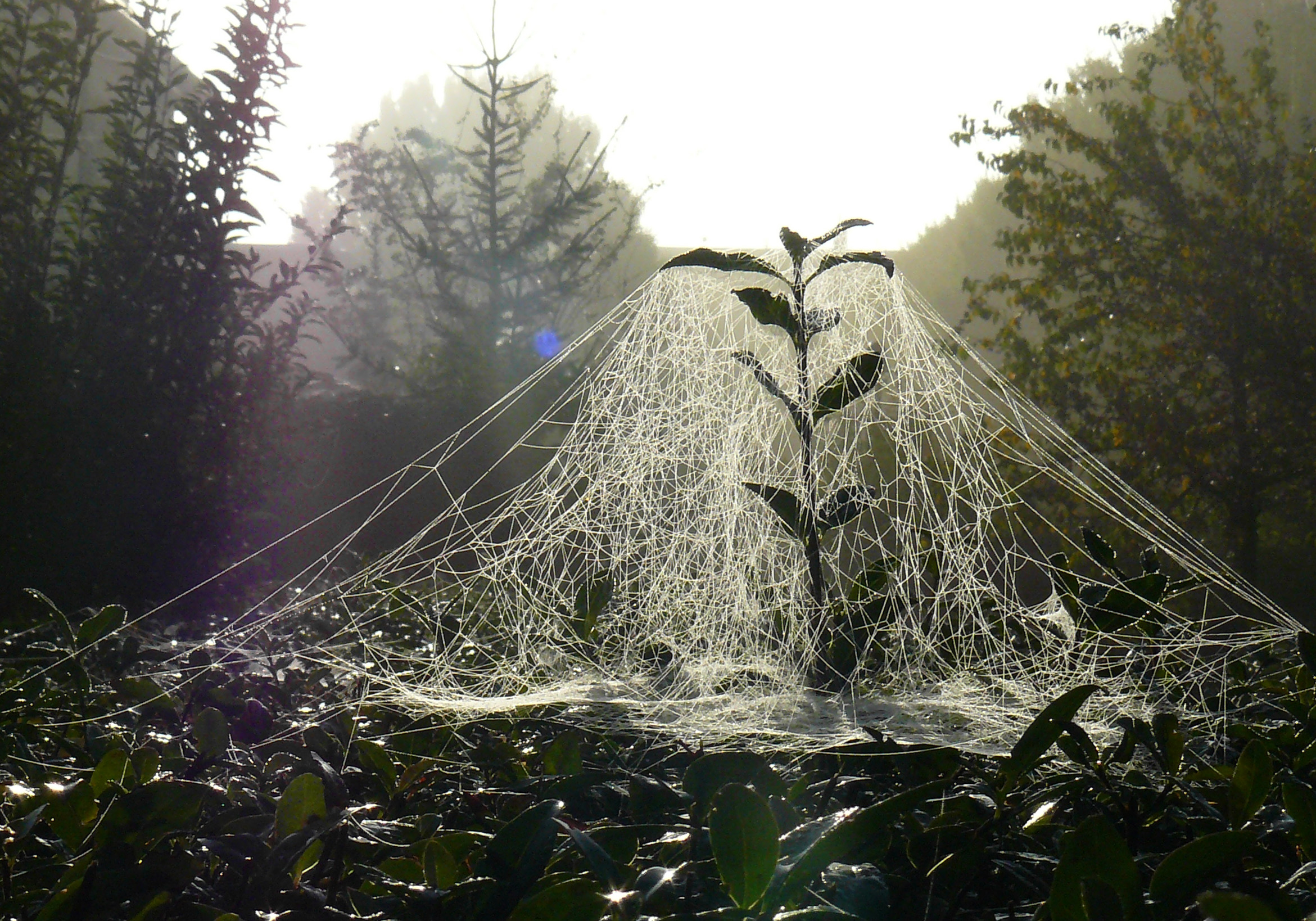 Spider web of sheet weaver spiders, taken some autumn morning 2009 in Weimar, Germany.